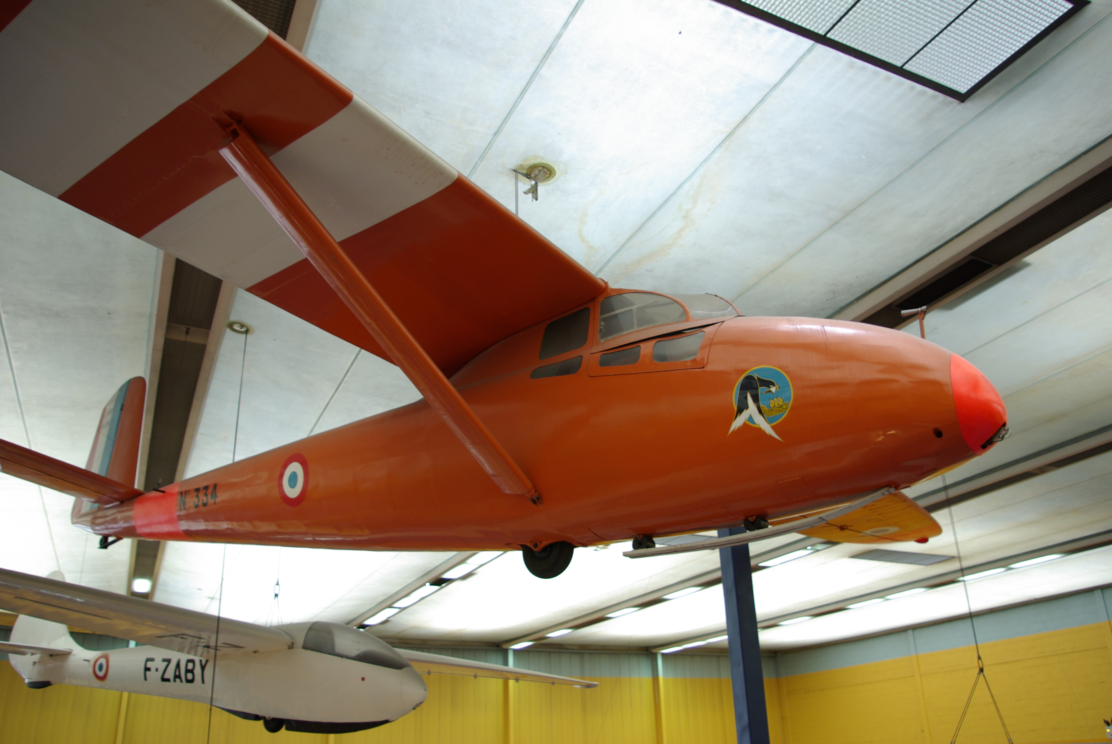 A Caudron C.800 glider, with an Arsenal Air 100 in the background, exhibited at the Air & Space Museum at Le Bourget, France.